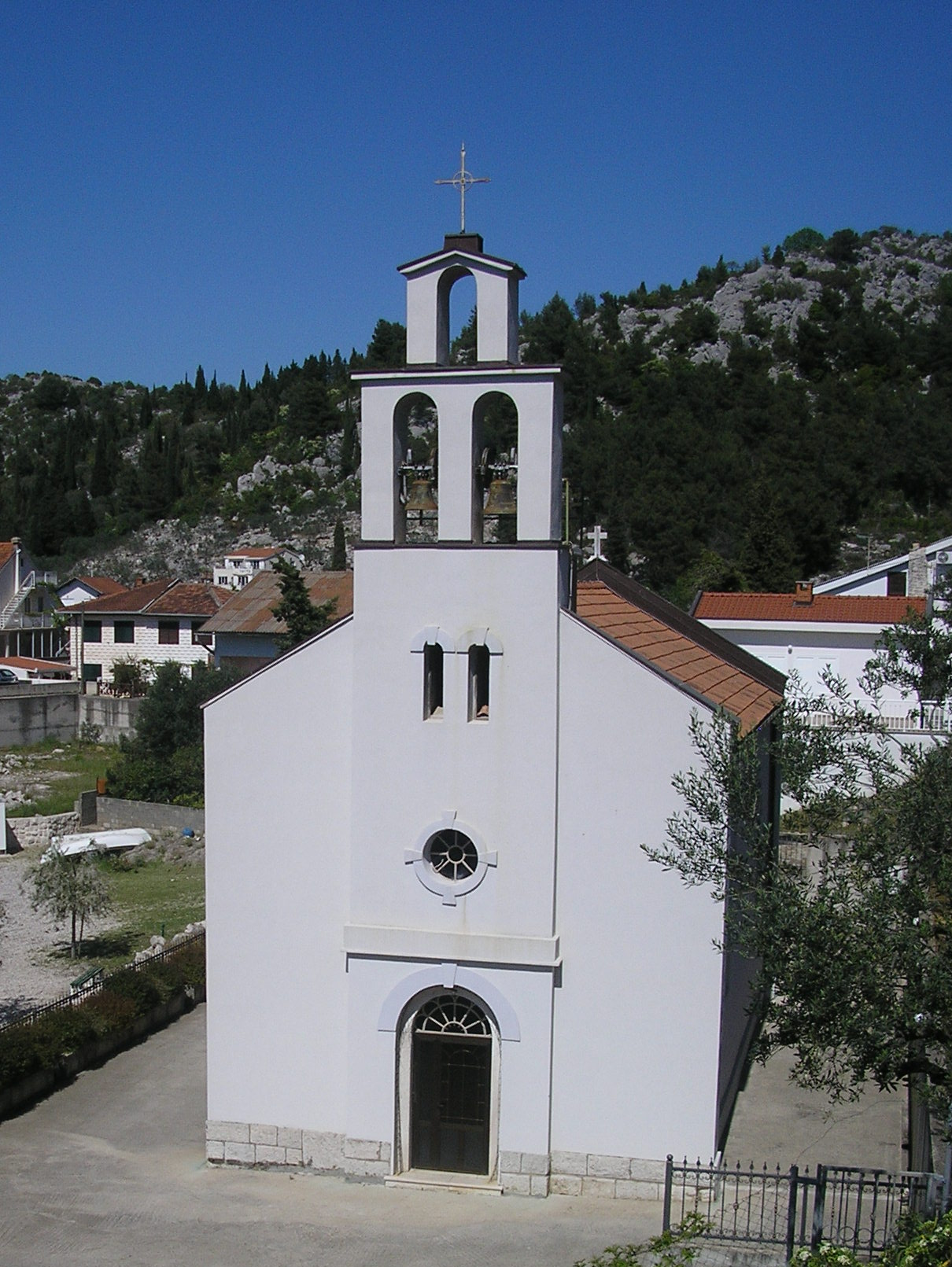 St. John the Baptist's church